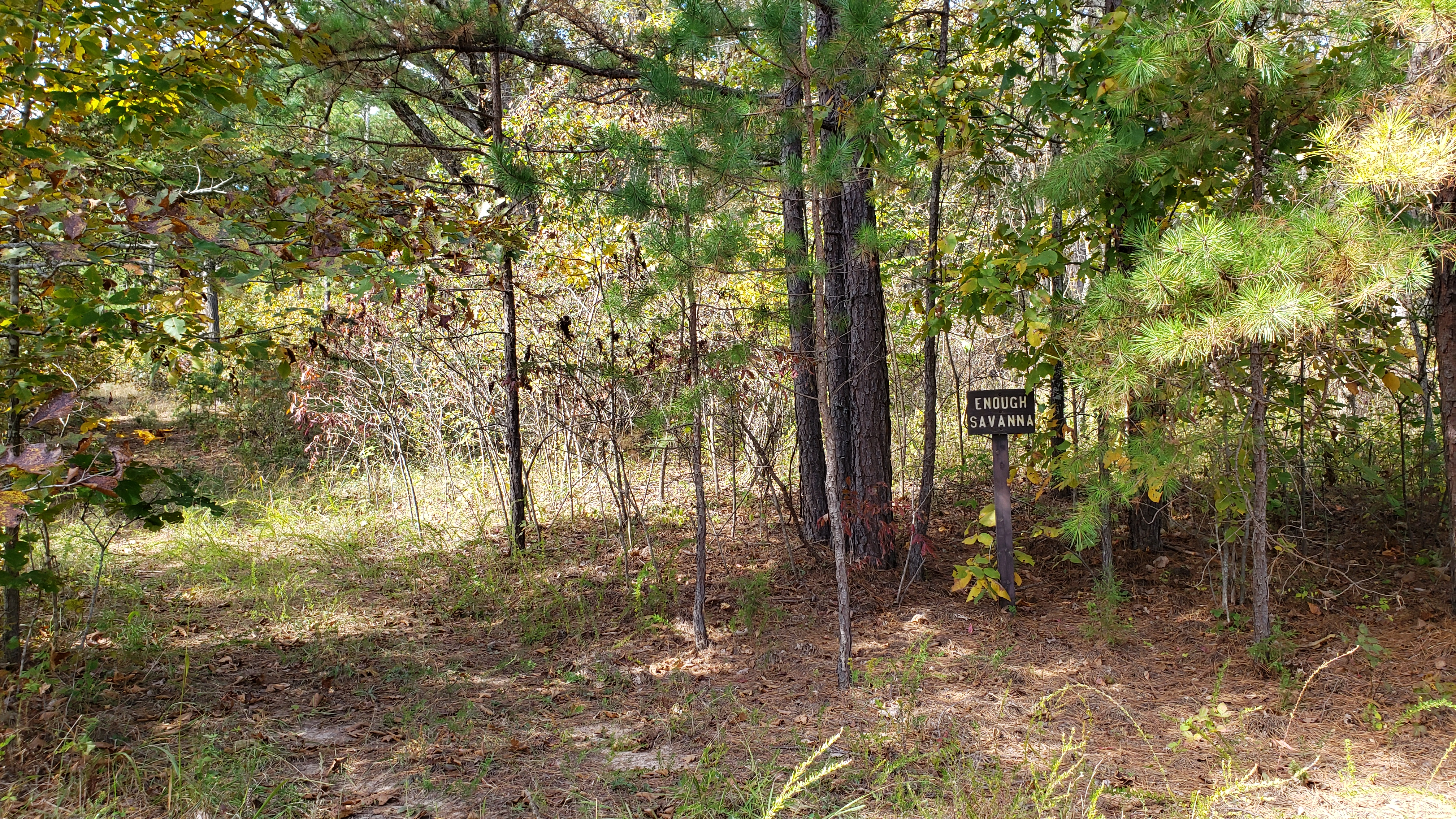 Forest Service sign in Mark Twain National Forest noting a savannah at the former site of the town of Enough, Missouri